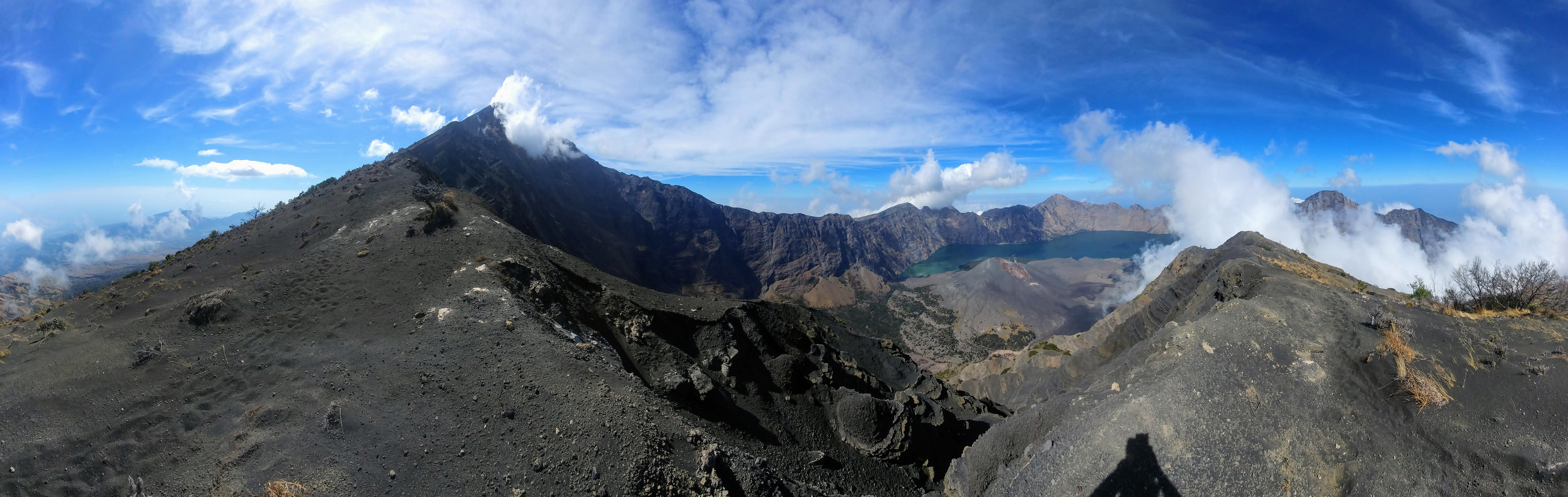 This panorama of Mount Rinjani and its summit, crater, and ash cone, was taken from an altitude of about 2,600 meters.